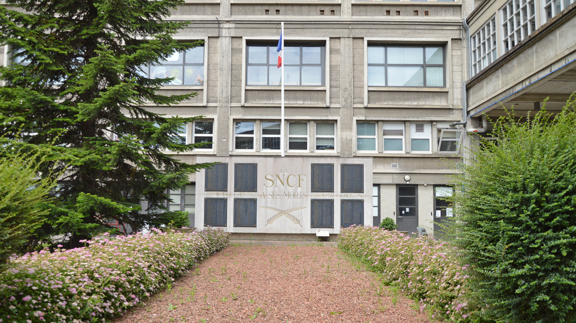 Monument dedicated to railway workers who died during the 2 nwars (1914/1918 and 1939/1945) in the courtyard of Amiens station